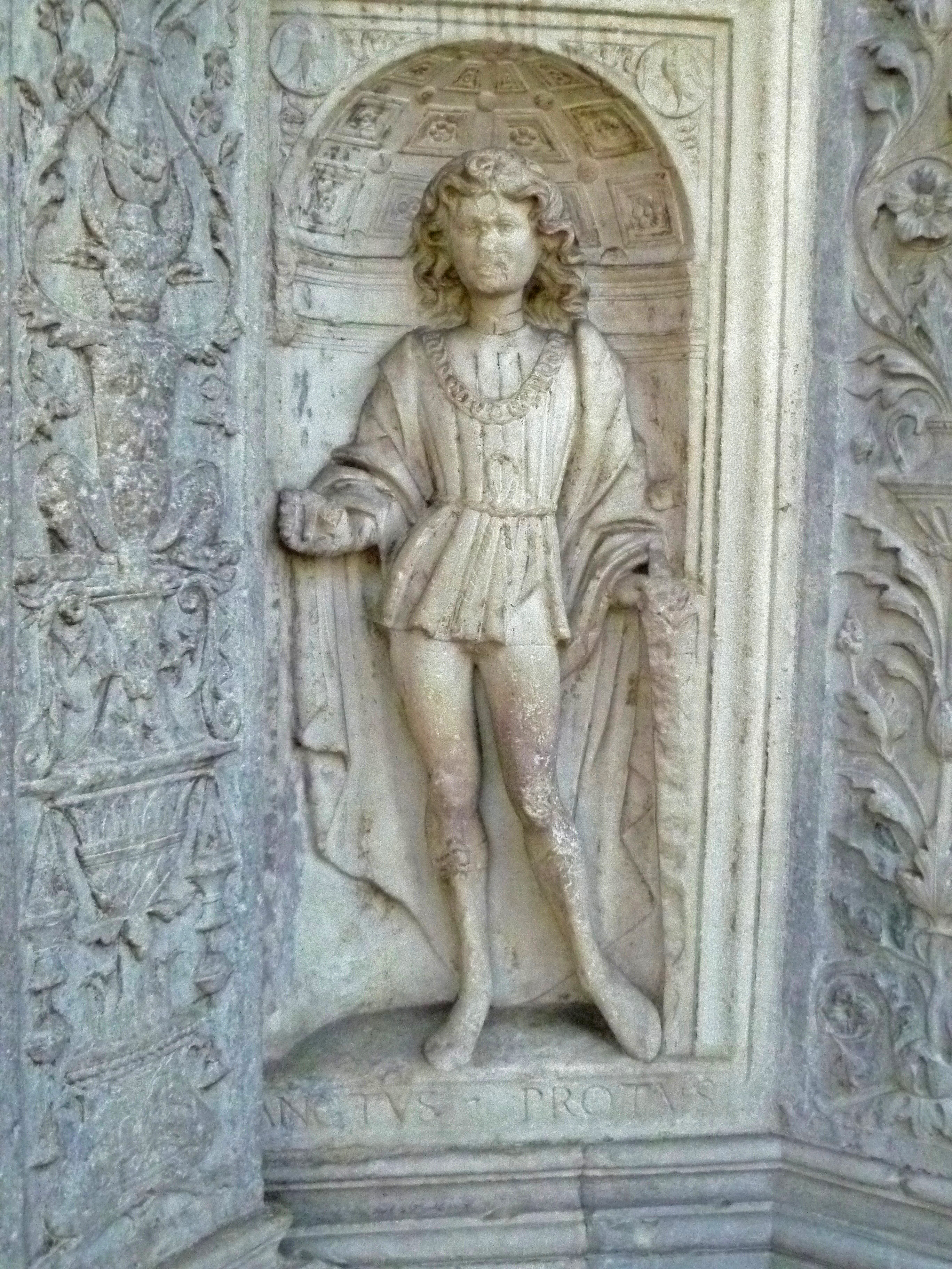 "St. Proto", statue in the column of the "Door of the Frog" by Tommaso and Giacomo Rodari (1507); cathedral of Como; Como, Italy